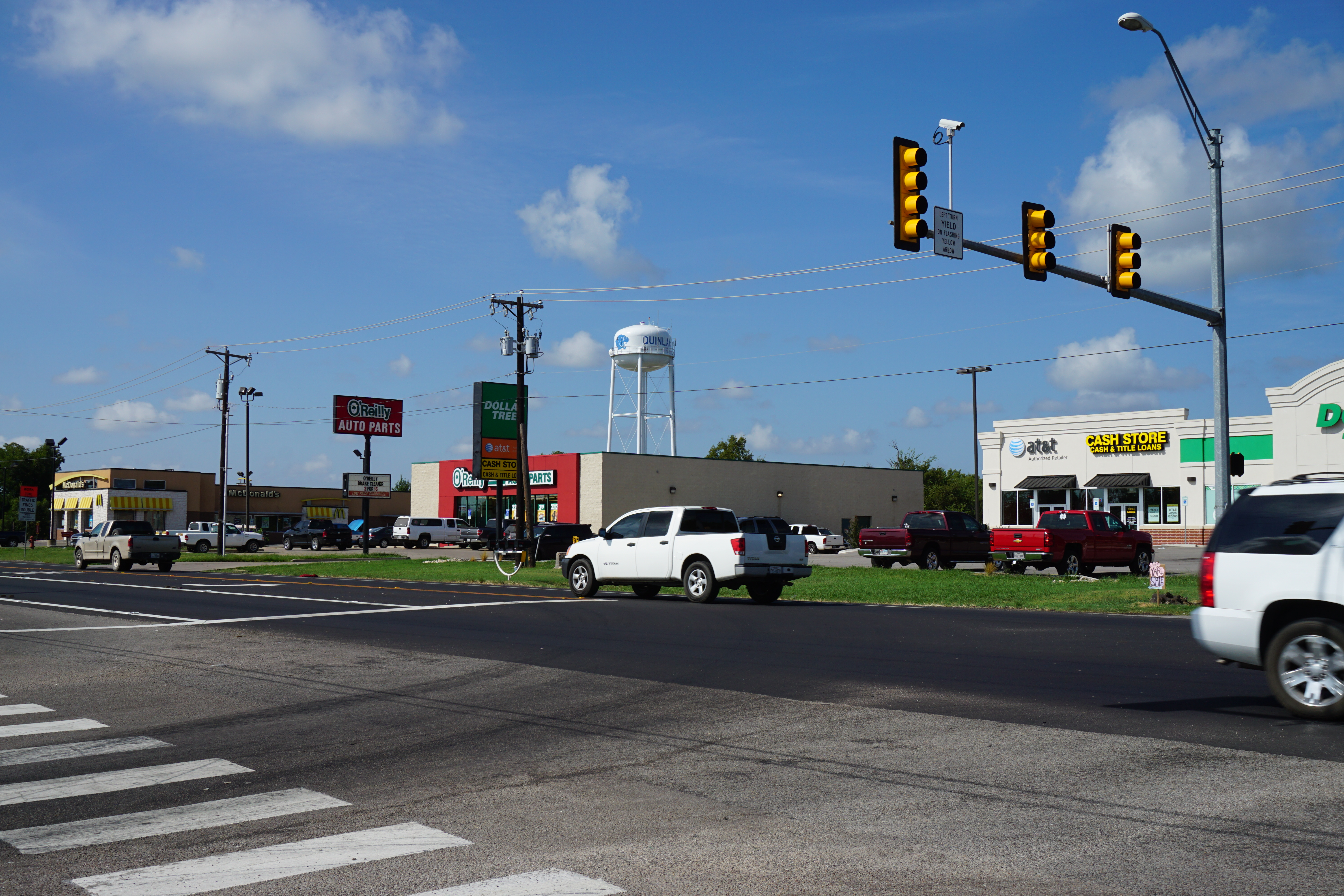 Texas State Highway 34 in Quinlan, Texas (United States).